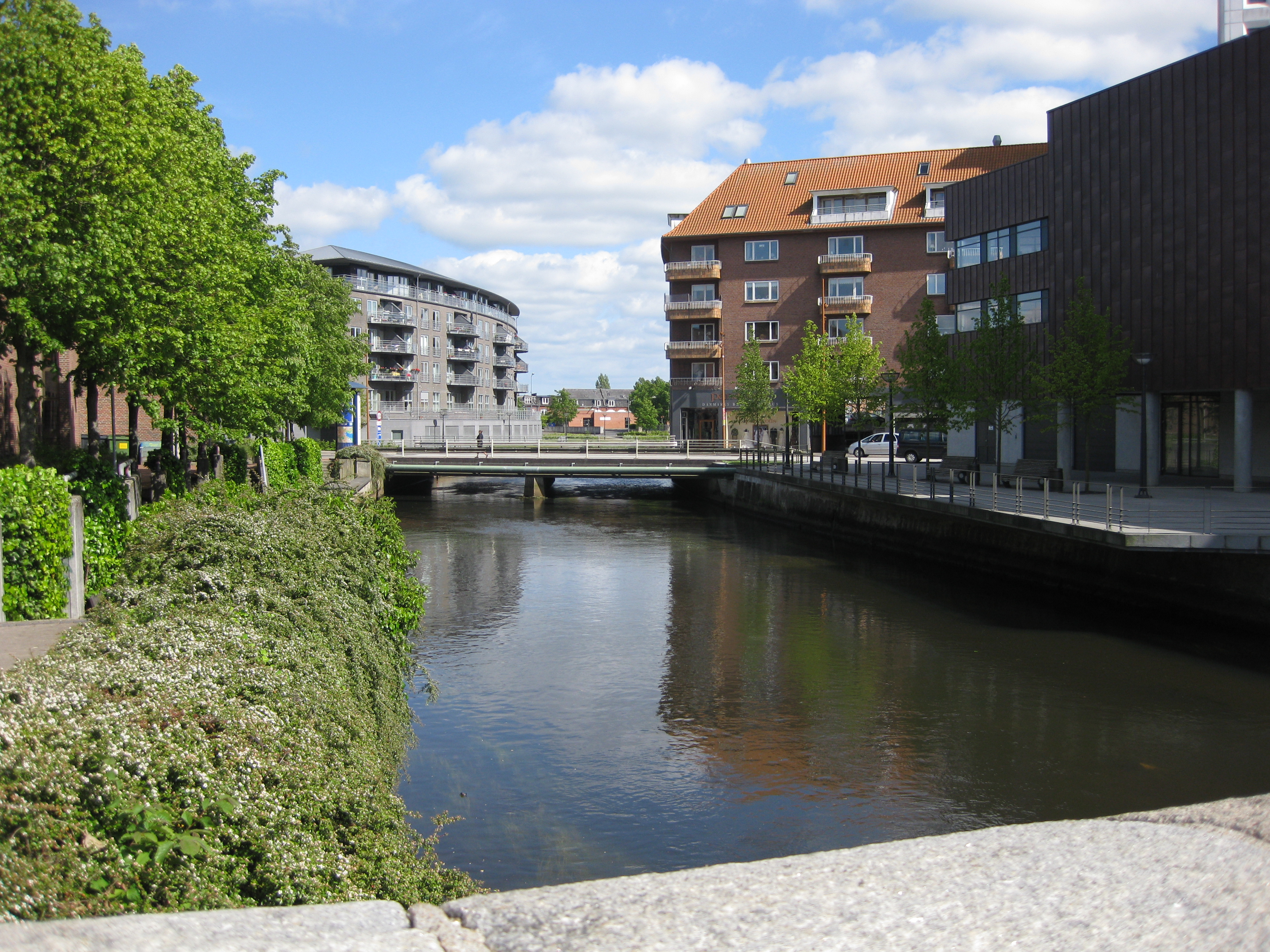 Vejle canals